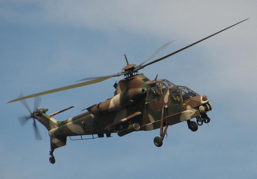 Denel CSH-2 Rooivalk in action at Ysterplaat Air Show on 23 September 2006 complete with simulated rockets and canon fire!.